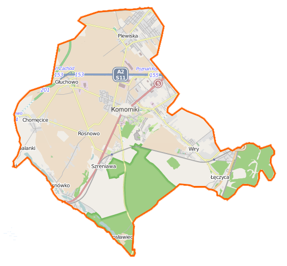 Map of Gmina Komorniki, Poland This map of Komorniki (gmina) was created from OpenStreetMap project data, collected by the community. This map may be incomplete, and may contain errors. Don't rely solely on it for navigation. Border coordinates52.381516.7222←↕→16.917952.2710